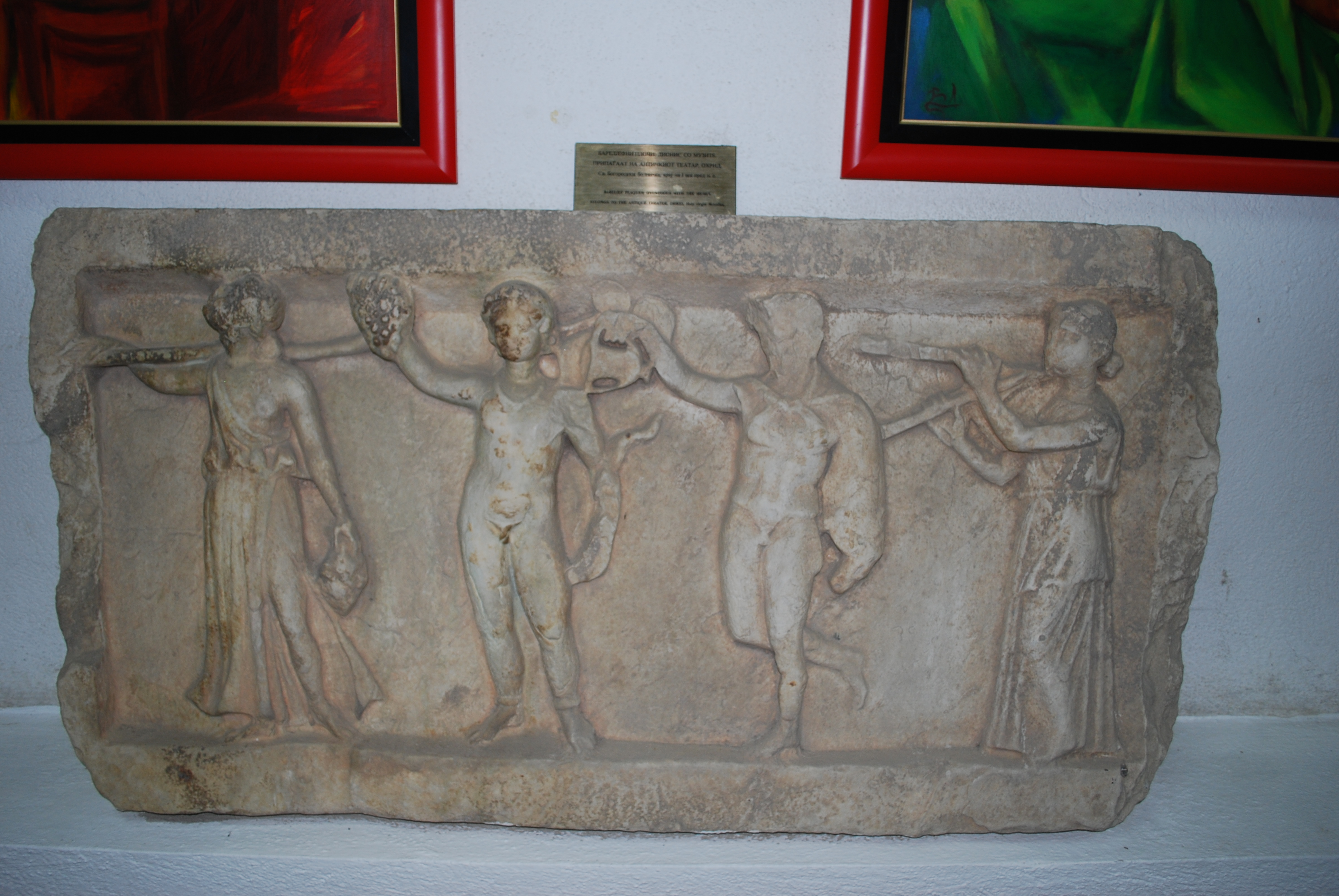 The Robevi house in Ohrid, one of the most famous architectural monuments in Macedonia. It was built in its current state in 1863 - 1864 by Todor Petkov from a village Gari near Debar. Today the house is a protected monument of culture under the "Institute for protection of cultural monuments in Ohrid". Currently, in houses is the "The Archeological museum of Ohrid". More...